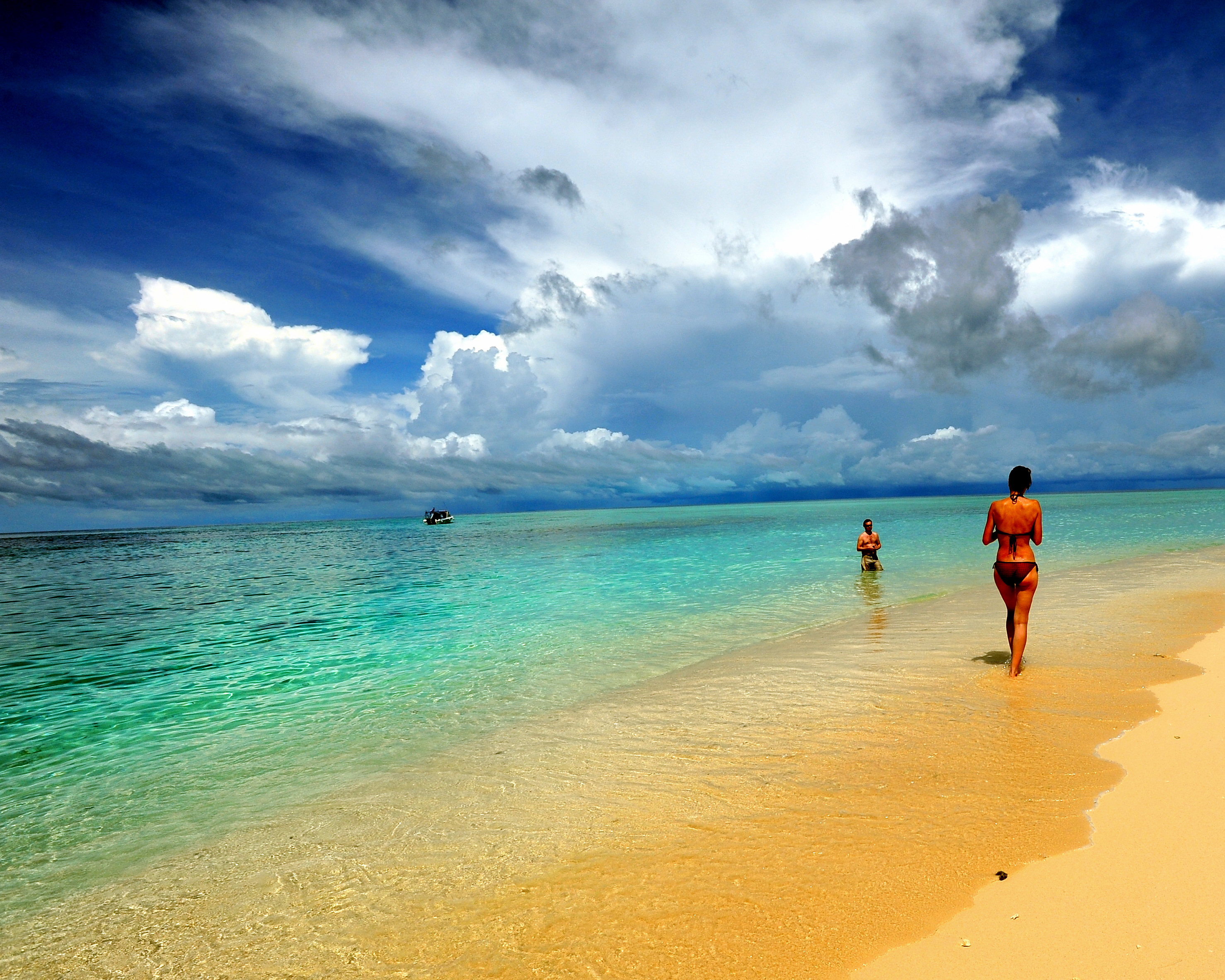 Sipadan in Sabah, Malaysia